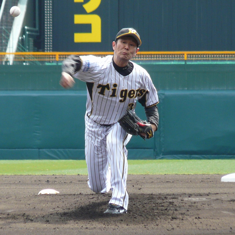 Yasutomo Kubo, pitcher of the Hanshin Tigers, at Hanshin Koshien Stadium.